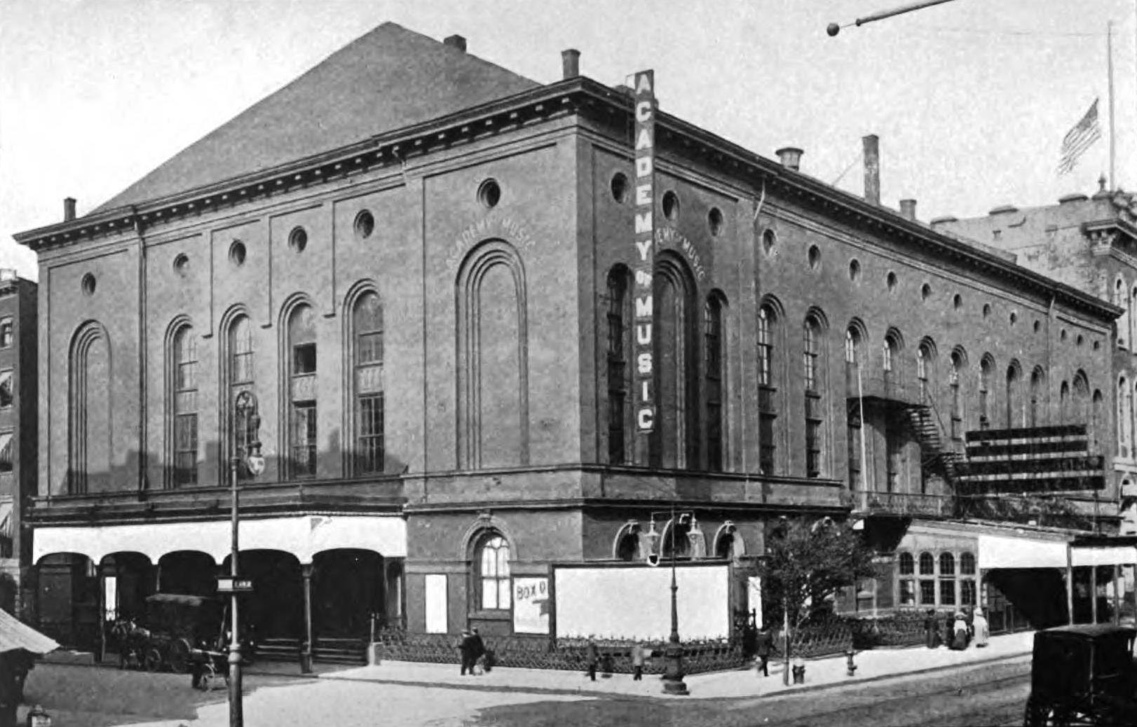 Academy of Music (New York City). Designed by Alexander Saeltzer, built in 1854